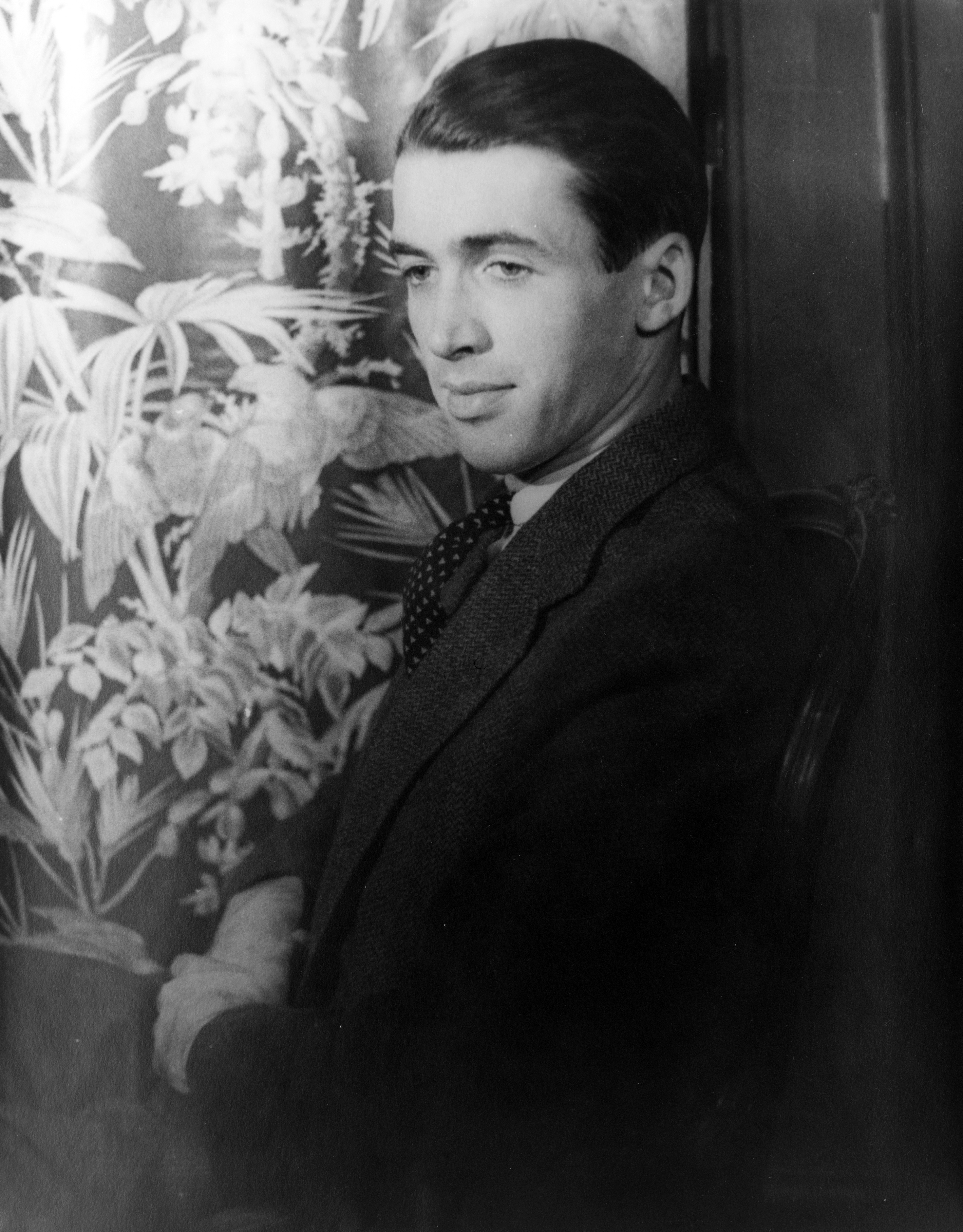 James Stewart, 15 October 1934